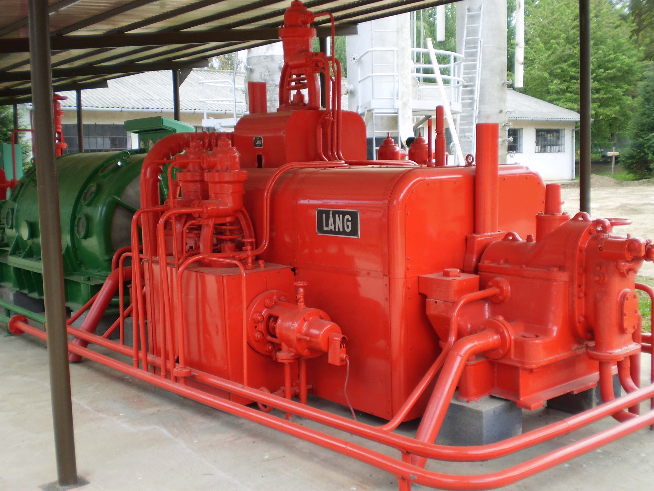 Láng-Brown Bovery small back pressure steam turbine in the Hungarian Oil Industry Museum, Zalaegerszeg, Hungary